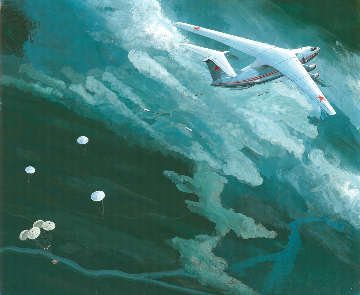 A view of a Soviet artist's concept of Candid jet transport.